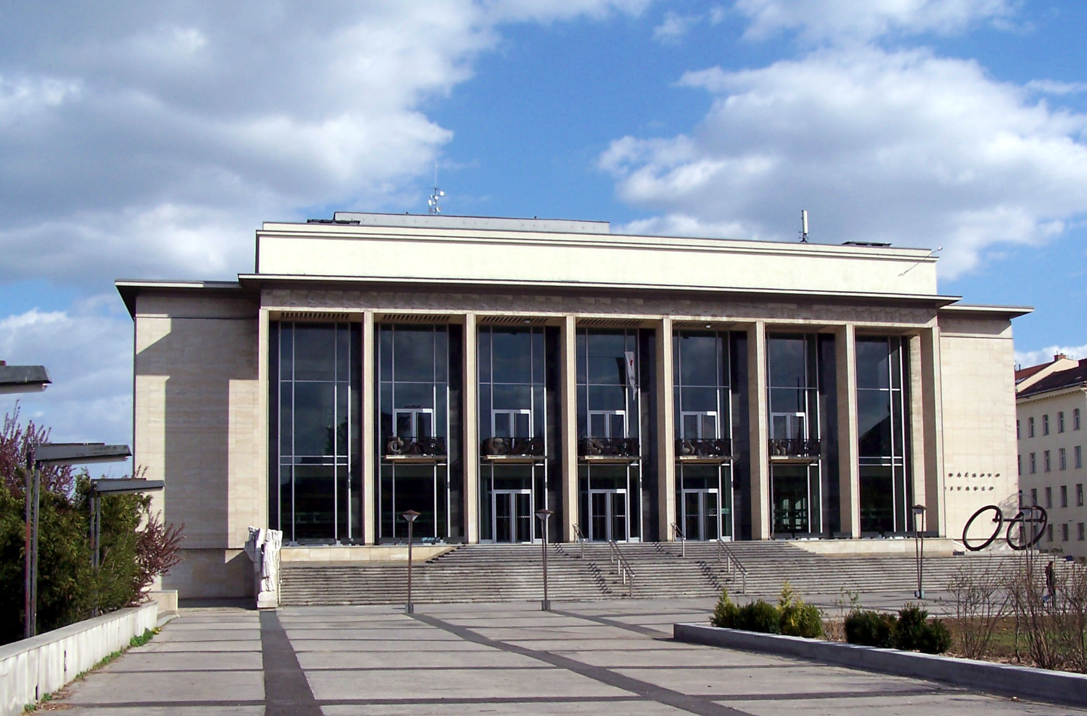 Janáček Theatre in Brno, Czech Republic